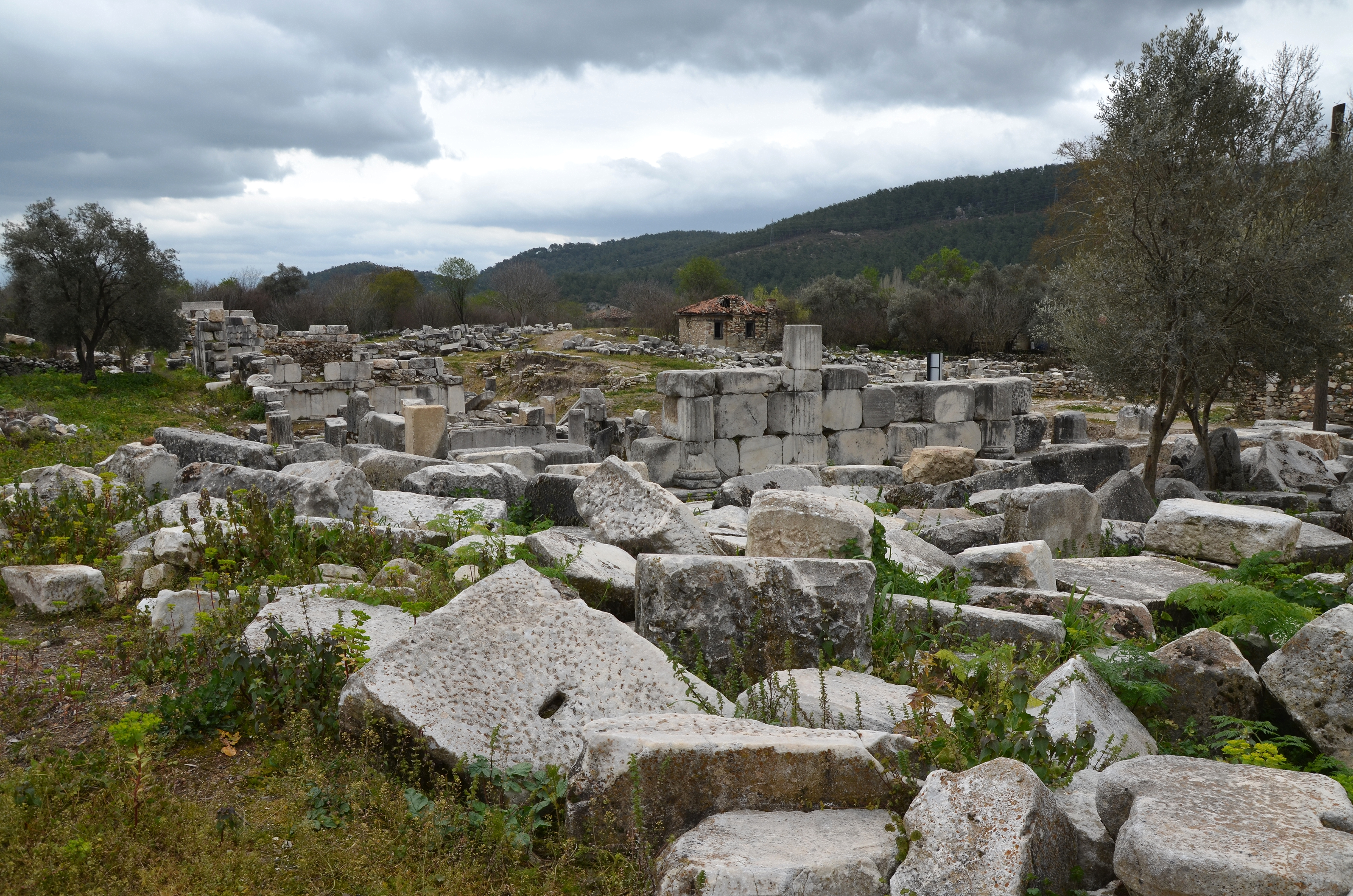 The ruins of the impressive Gymnasium, built in the second quarter of the 2nd century BC to the west end of the city, Stratonicea Caria, Turkey